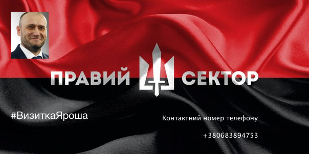 Visiting card of Dmytro Yarosh